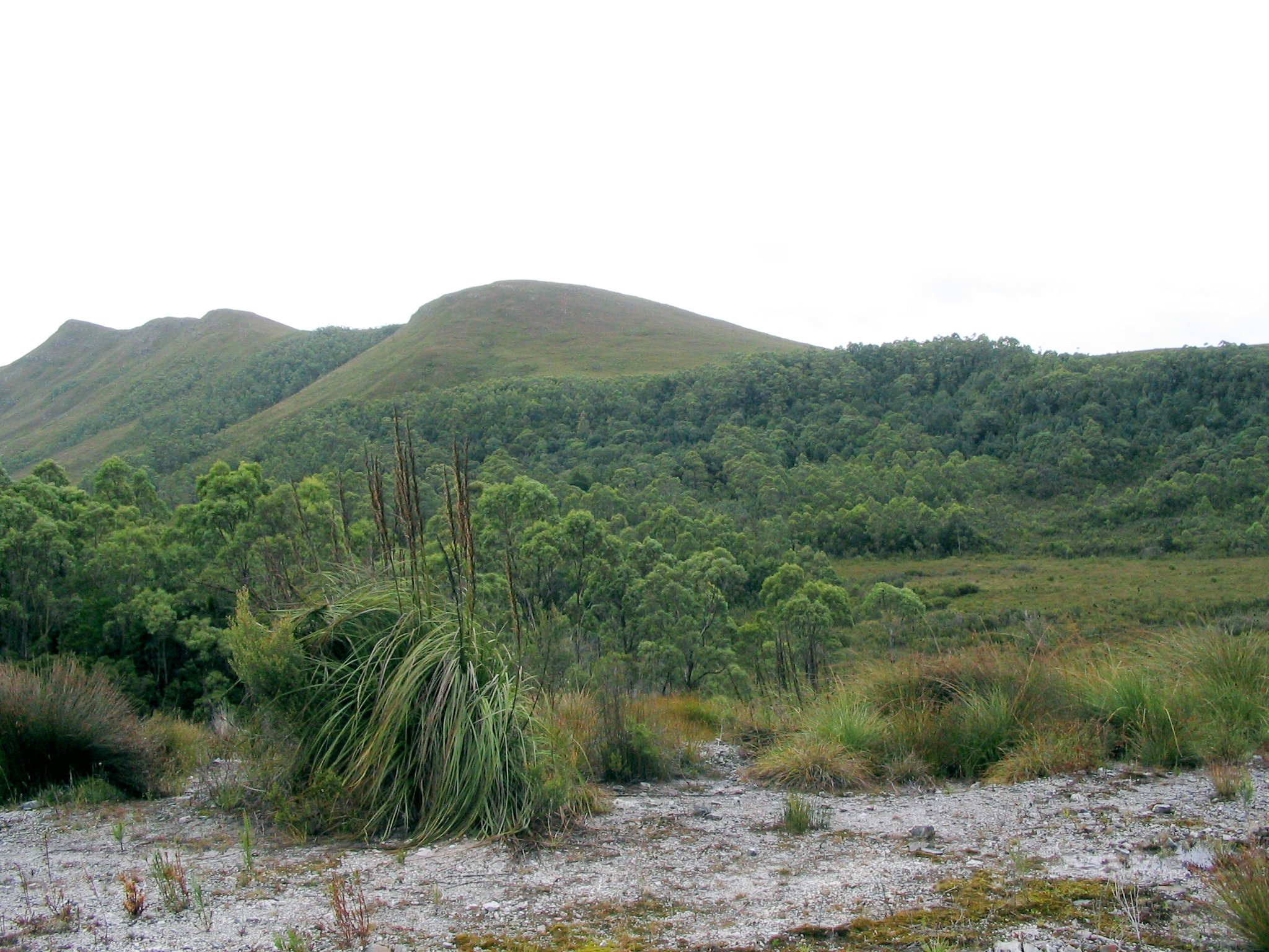 Buttongrass and forest, inland from Strahan, Tasmania, Australia. Taken during 2005 Great Tasmanian Bike Ride.